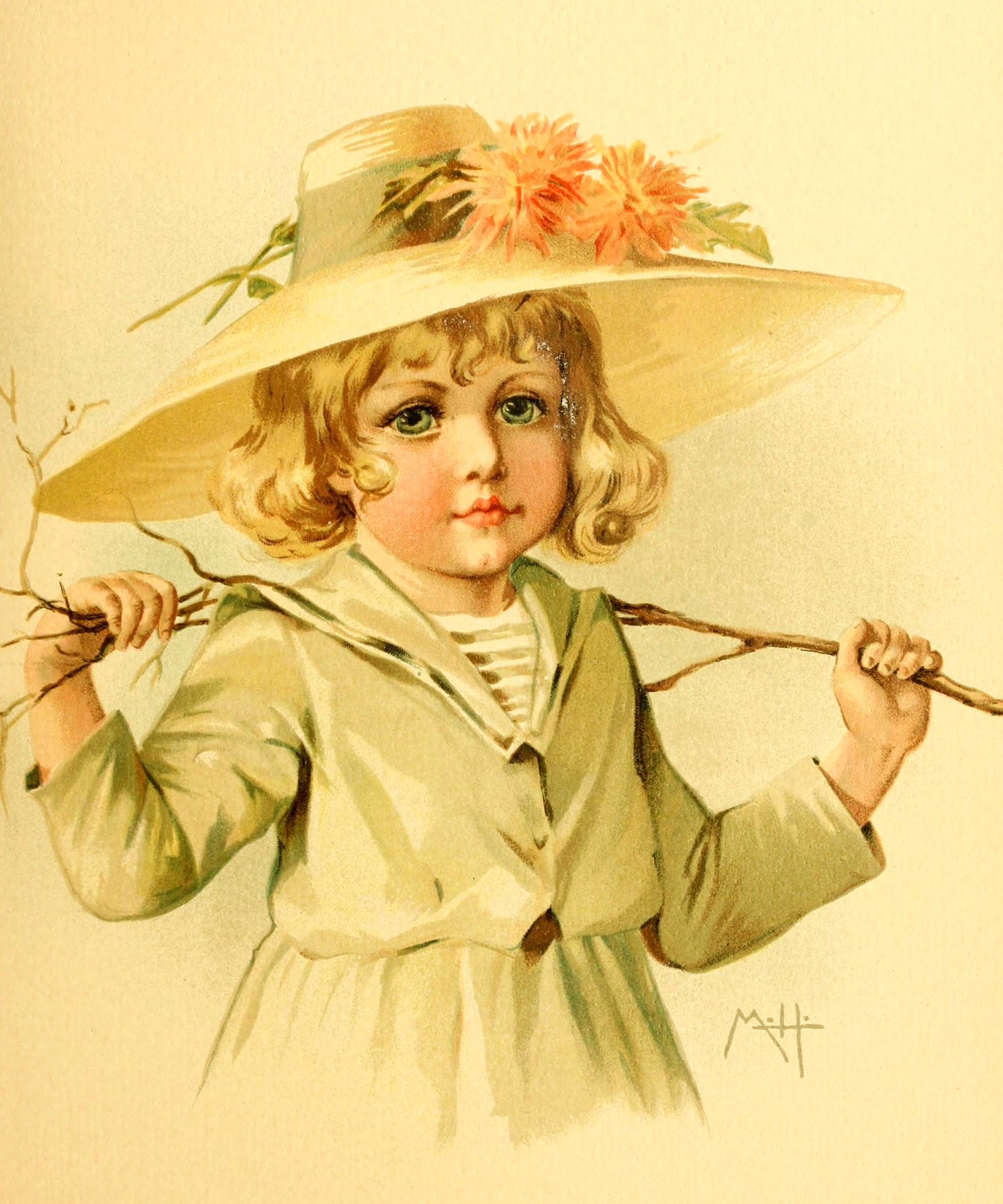 pg 13 of Children of Winter.